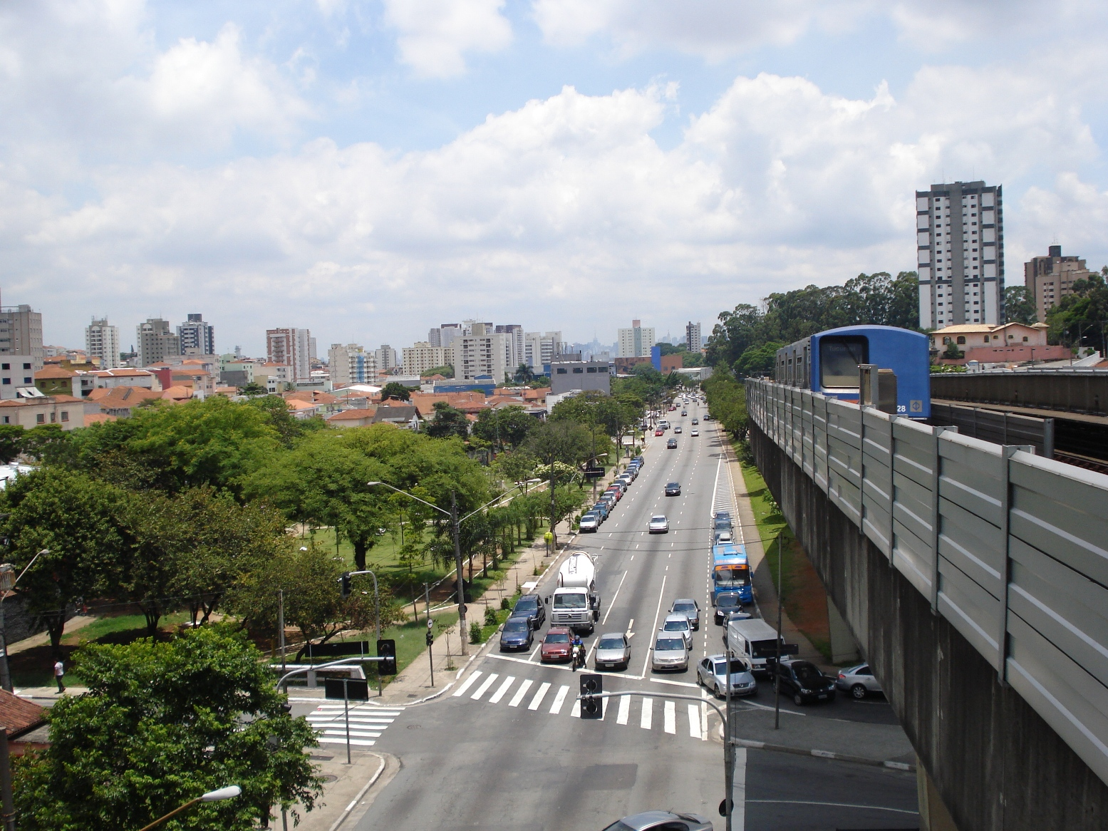 avenida Luiz Dumont Villares (avenue), seen from Parada Inglesa metro station, in Sao Paulo, SP, Brazil.